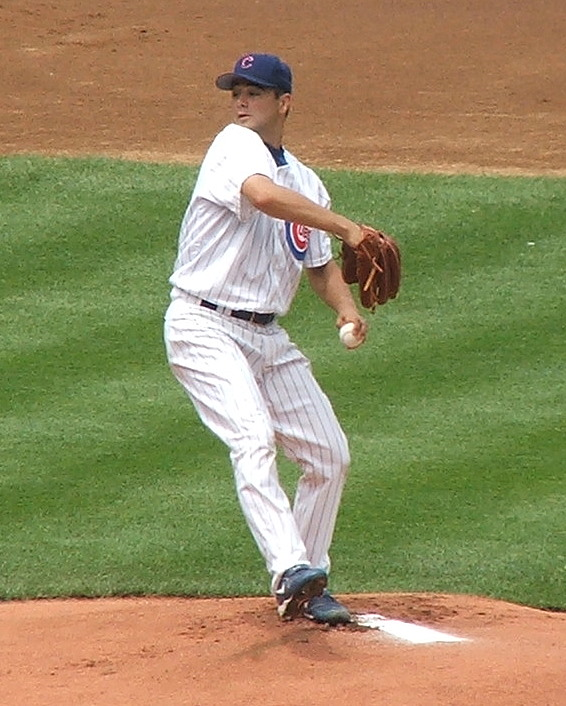 Ted Lilly of the Chicago Cubs throwing a pitch during a game at Wrigley Field in Chicago, Illinois against the Giants in 2007